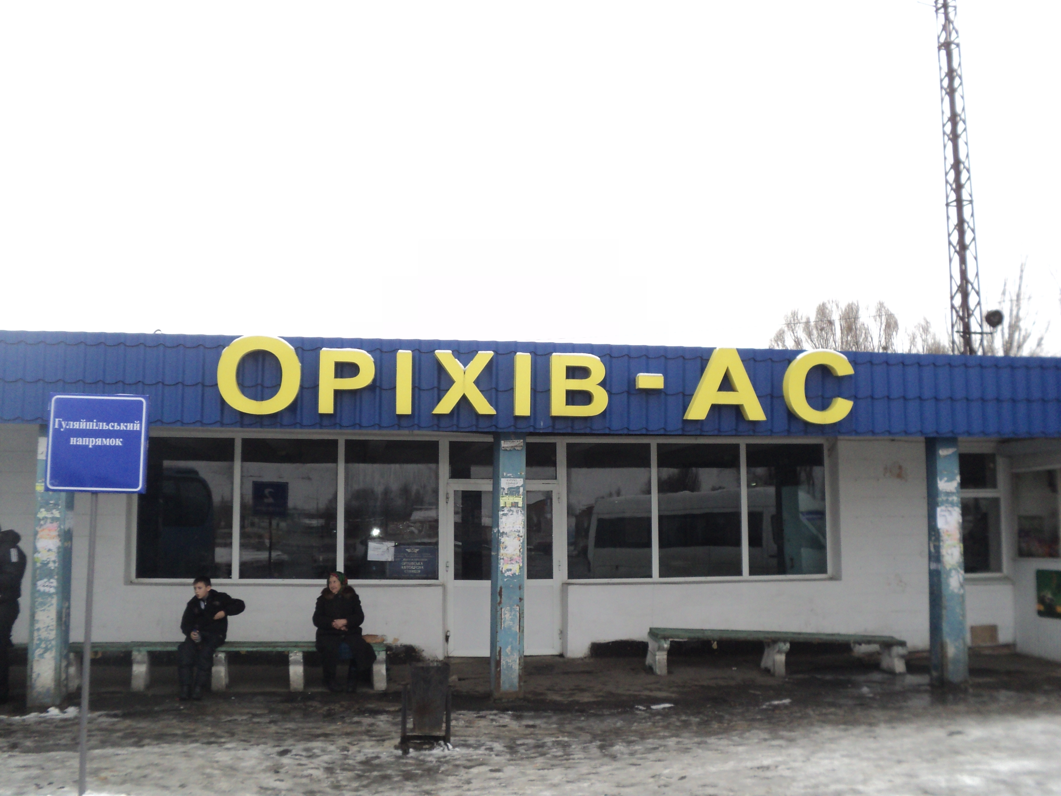 Bus station in the Orikhiv